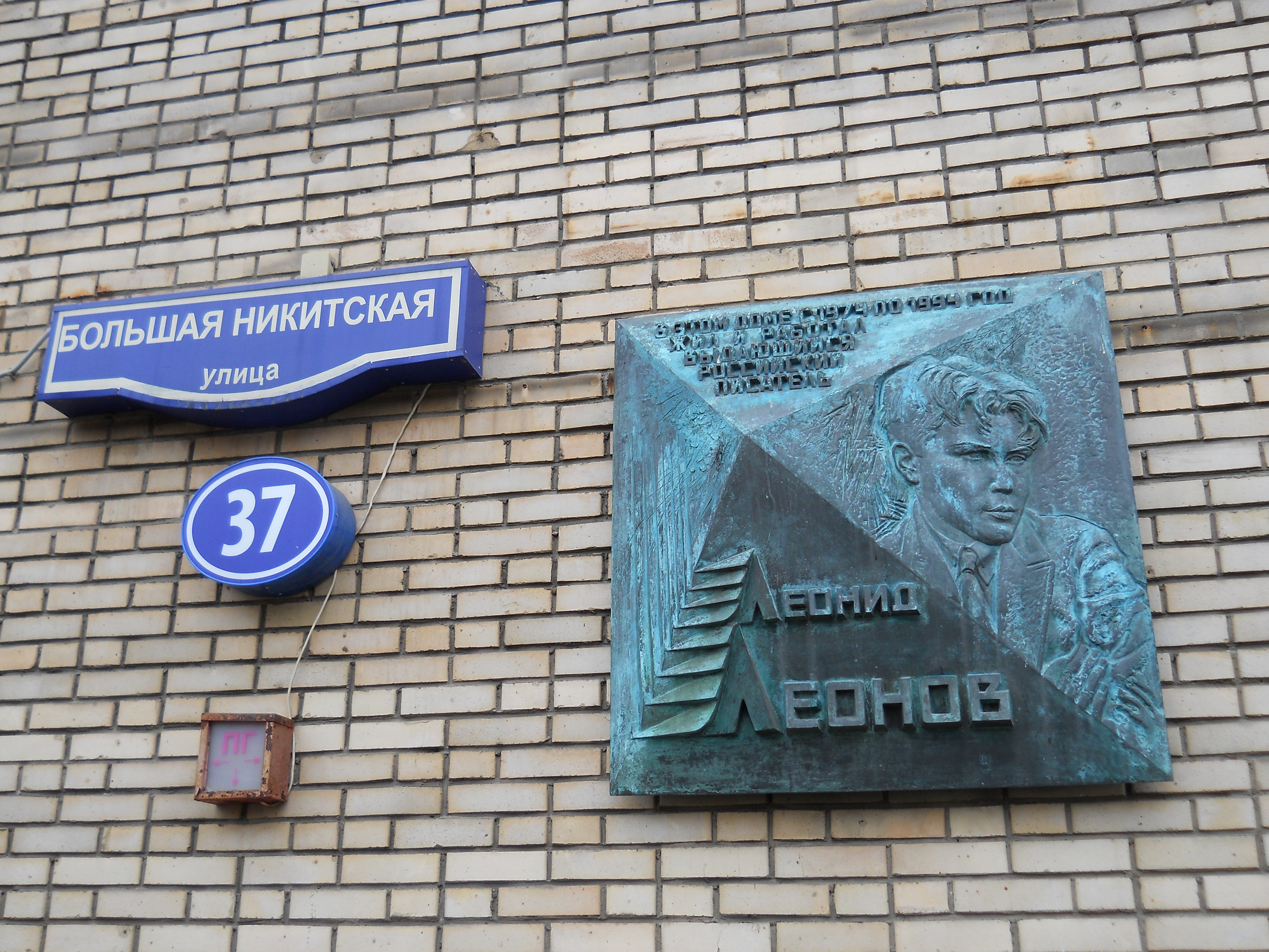 Bolshaya Nikitskaya Street 37, Moscow. Leonid Leonov memorial plaque.